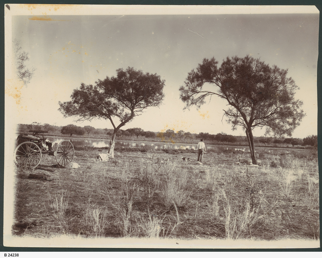 Newcastle Waters Camping Ground ca.1900